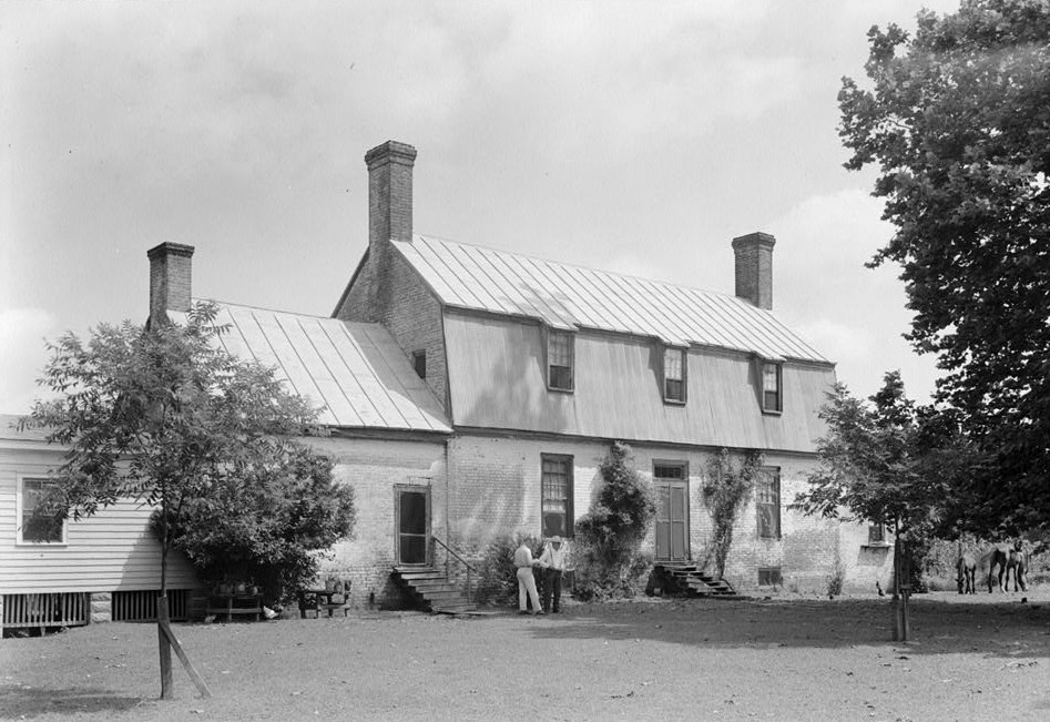 Verville, State Route 611, Merry Point (Lancaster County, Virginia) cropped This file comes from the Historic American Buildings Survey (HABS), Historic American Engineering Record (HAER) or Historic American Landscapes Survey (HALS). These are programs of the National Park Service established for the purpose of documenting historic places. Records consist of measured drawings, archival photographs, and written reports. When reusing please credit: Library of Congress, Prints & Photographs Division, VA,52-MERPO,1-3 This tag does not indicate the copyright status of the attached work. A normal copyright tag is still required. See Commons:Licensing for more information. English | +/− This work is in the public domain in the United States because it is a work prepared by an officer or employee of the United States Government as part of that person’s official duties under the terms of Title 17, Chapter 1, Section 105 of the US Code. See Copyright. Note: This only applies to original works of the Federal Government and not to the work of any individual U.S. state, territory, commonwealth, county, municipality, or any other subdivision. This template also does not apply to postage stamp designs published by the United States Postal Service since 1978. (See § 313.6(C)(1) of Compendium of U.S. Copyright Office Practices). It also does not apply to certain US coins; see The US Mint Terms of Use. This file has been identified as being free of known restrictions under copyright law, including all related and neighboring rights.